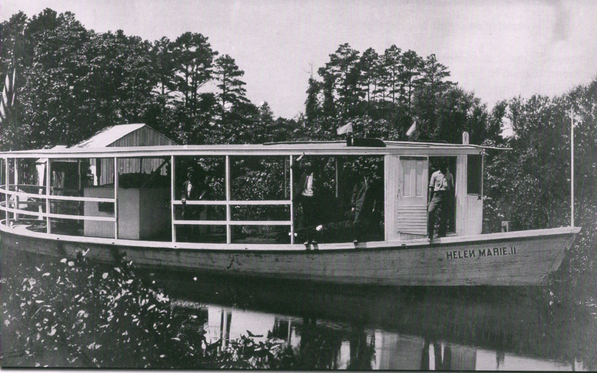 The motorboat Helen Marie II, which carried passengers between Rehoboth Beach, and Bethany Beach beginning in 1912.